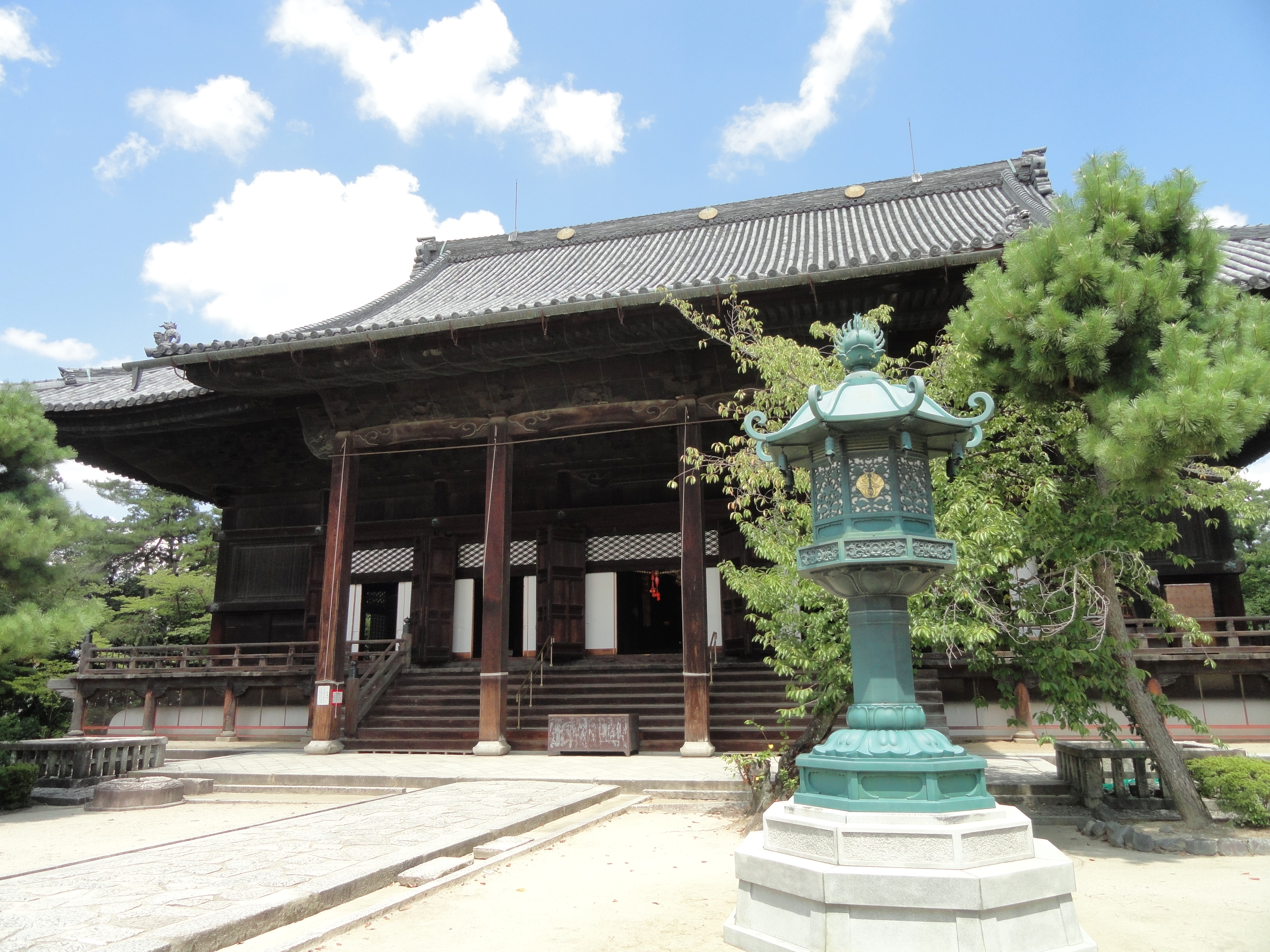 Hyakumanben chion-ji 知恩寺(百万遍), 103 Tanakamonzen-cho, Sakyo-ku, Kyoto, Japan.